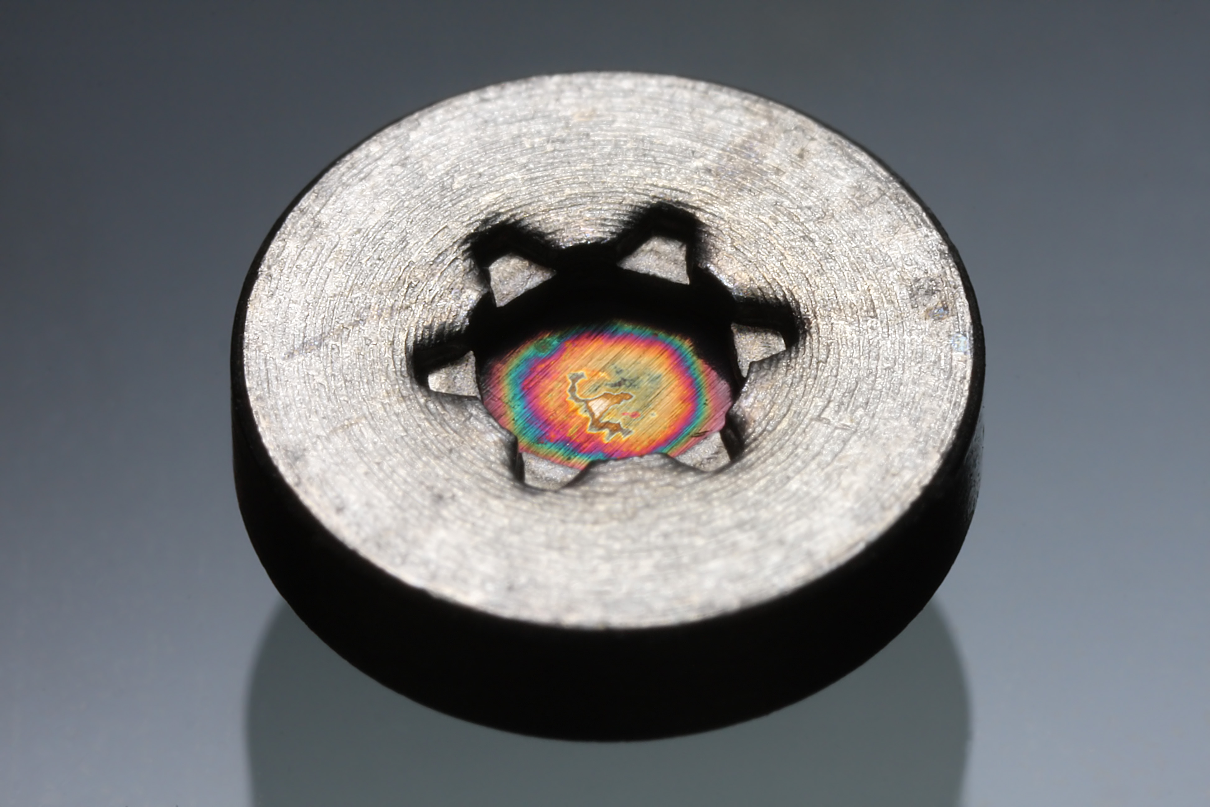 A small button from an ionization-type smoke detector containing 1 microcurie of americium-241 dioxide (241AmO2) inside. The metal casing is aluminum.